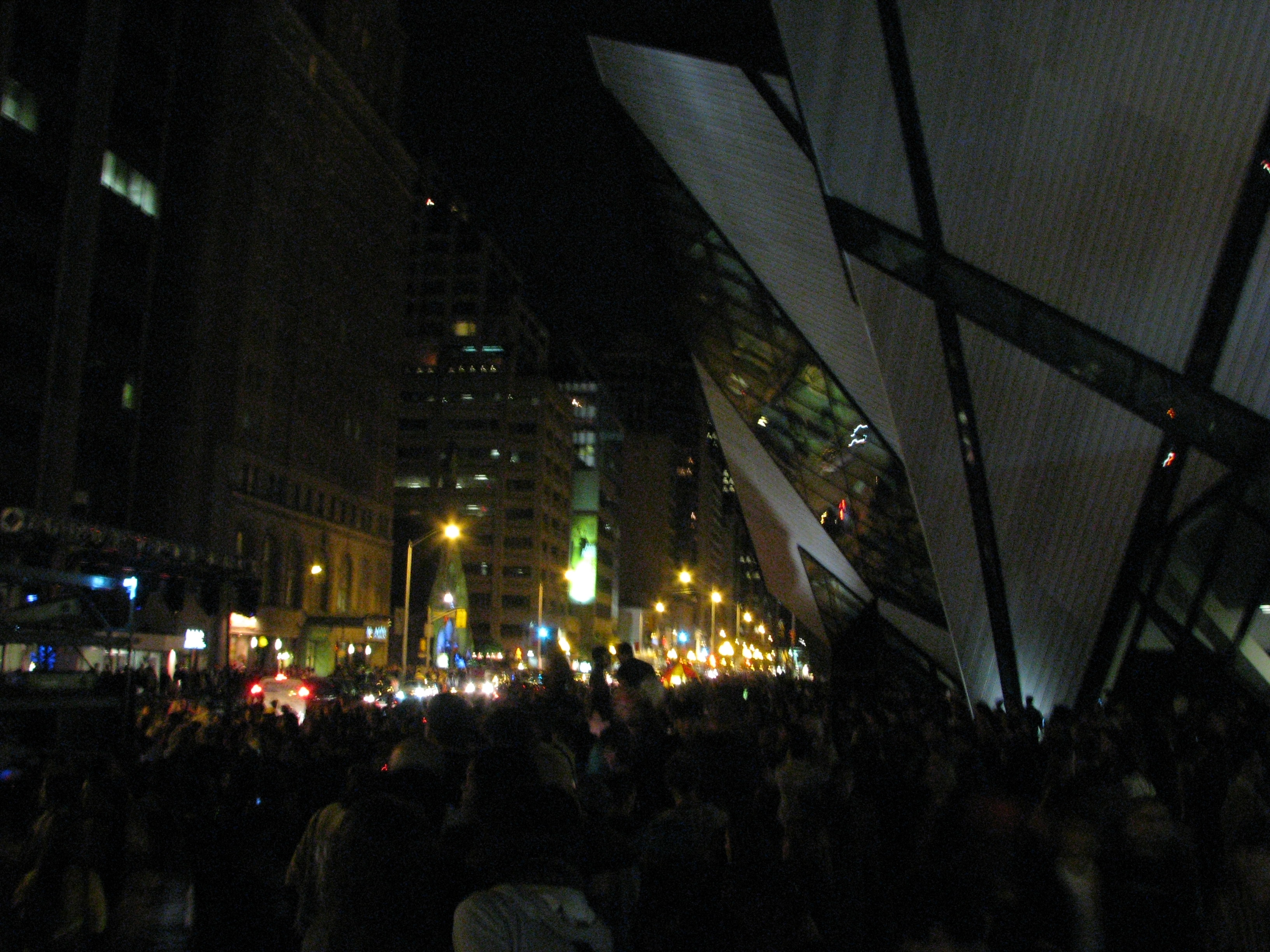 Nuit Blanche Toronto, in front of the Royal Ontario Museum, Toronto, Canadabloor and avenue